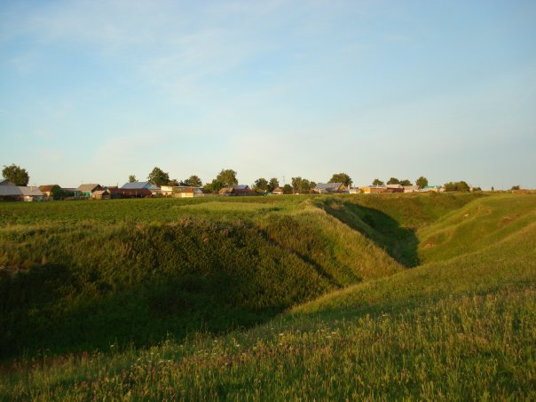 Aqshar ravine of Iske Chachkab